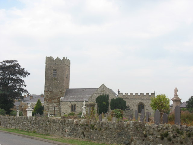 Llanbeblig. This medieval church is dedicated to Peblig, a 5thC saint, who according to legend was the son of Macsen Wledig (the Roman Emperor Magnus Maximus) whose wife Helen was a local girl. A disciple of St Martin of Tours, Peblig returned to the area and established a monastic settlement - (a 'llan')- on this site.